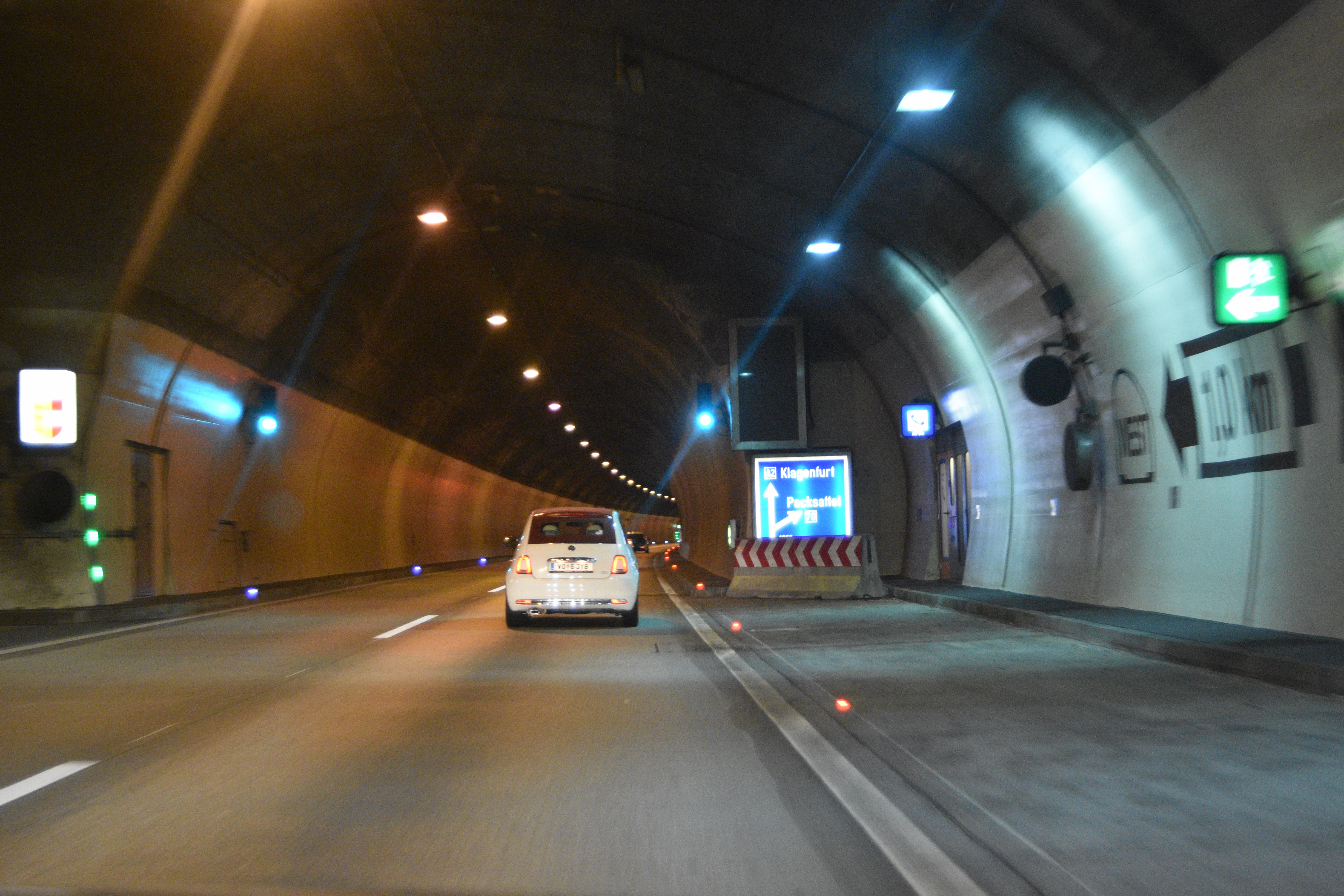 Süd Autobahn A2 in Carinthia